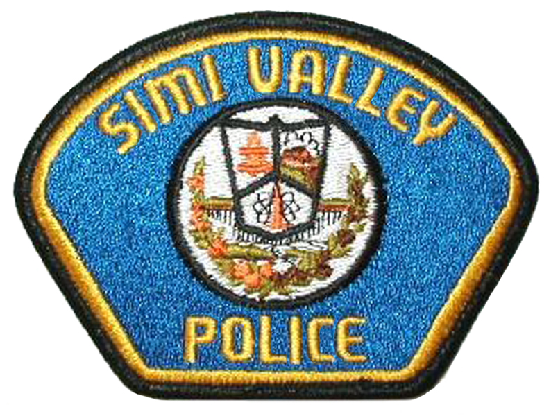 Patch.